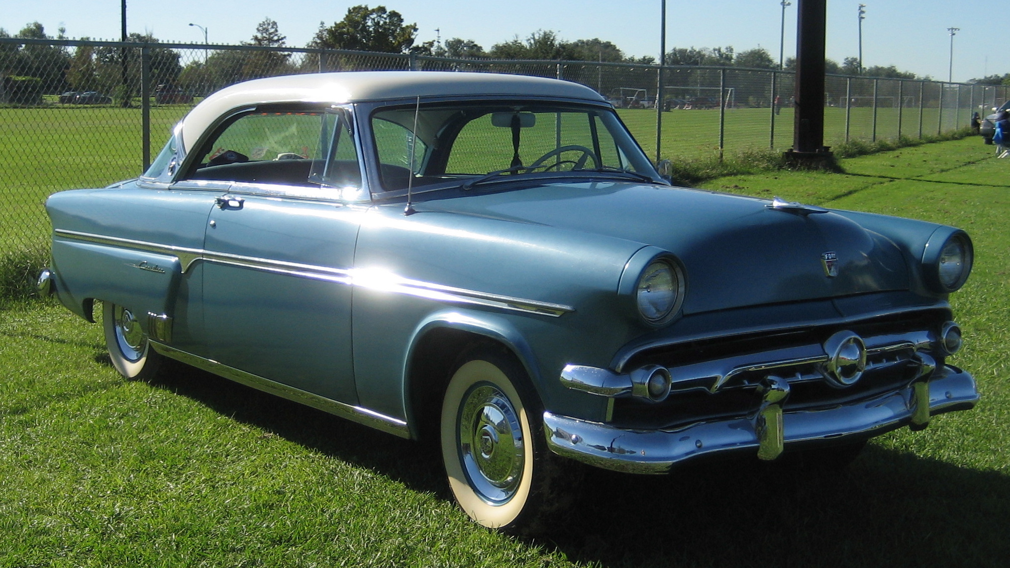 1954 Ford Victoria photographed at the Audubon Park Butterfly, New Orleans.